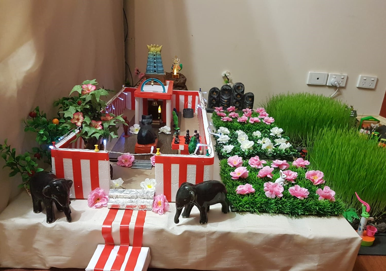 South Indian temple set-up